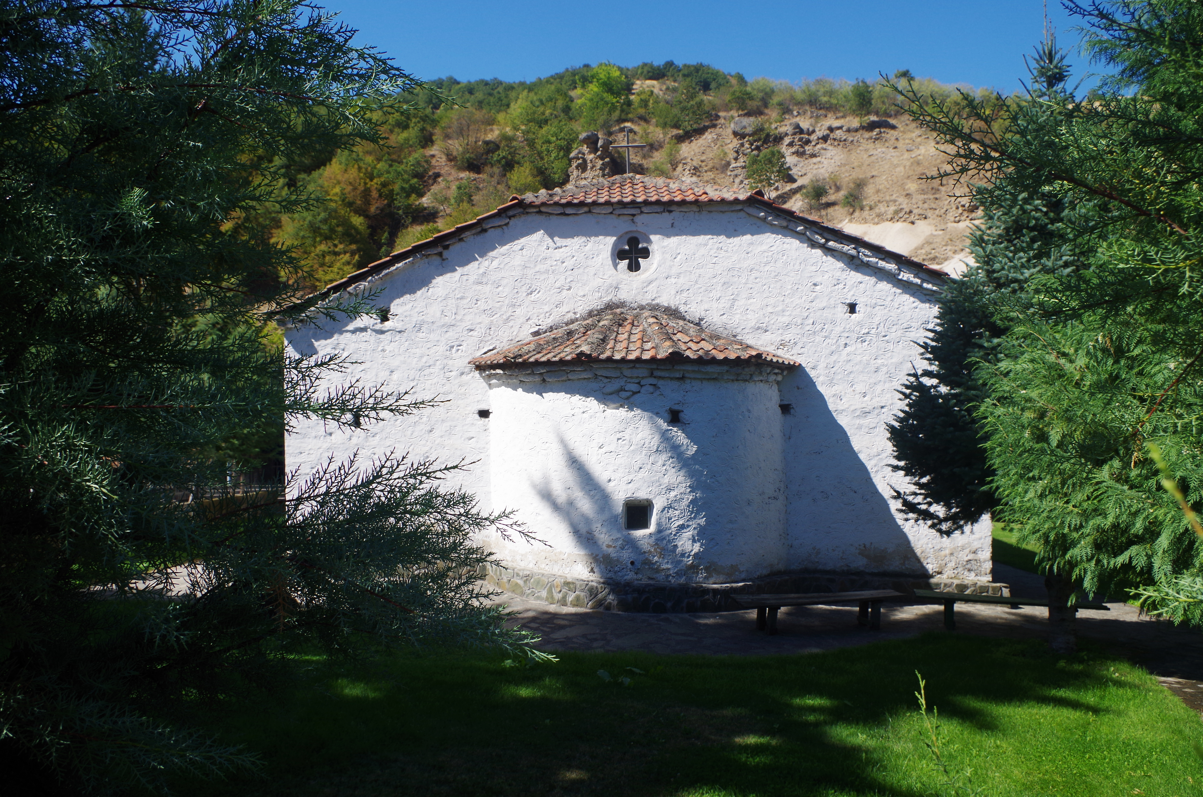 St. Stephen's Church in the village of Konopište